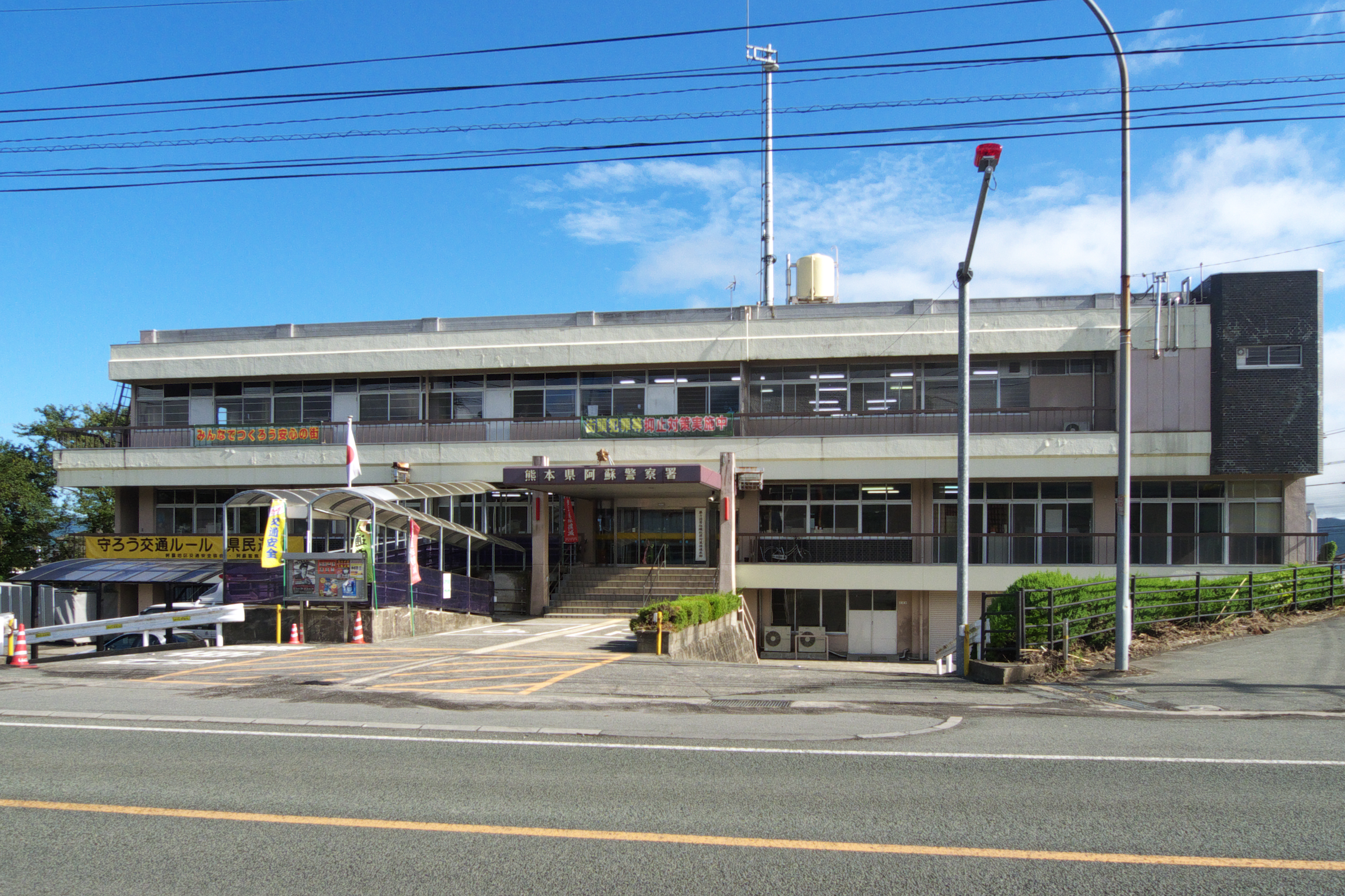 Kumamoto Prefectural Police Aso Police Station